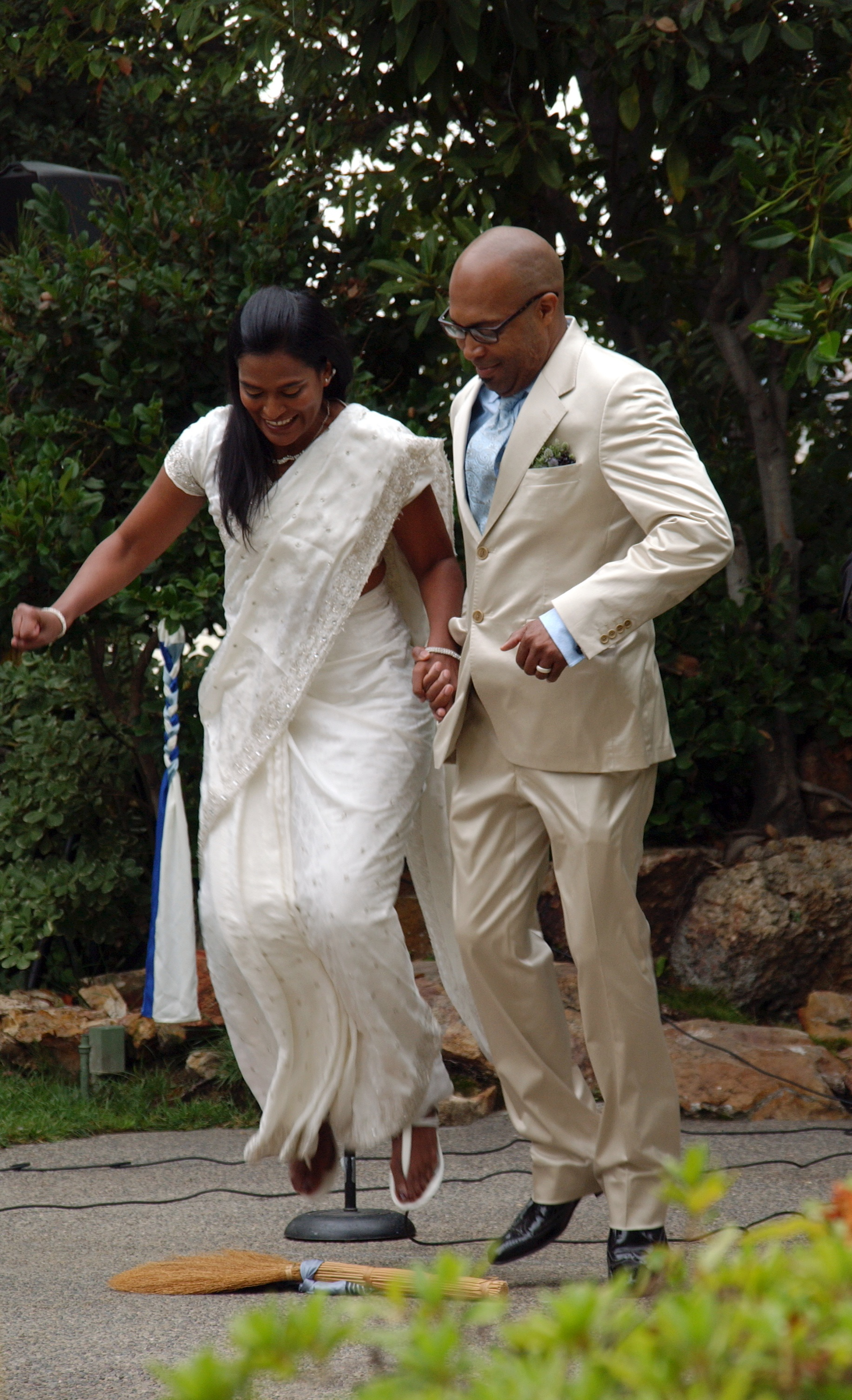 "jumping the broom" at a Los Angeles wedding in September 2011.